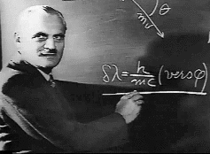 Arthur Holly Compton, American physicist (1892-1962)